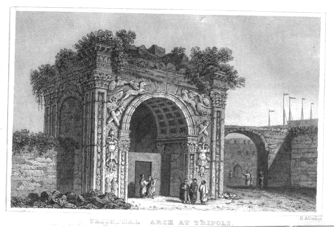 Roman arch, Tripoli